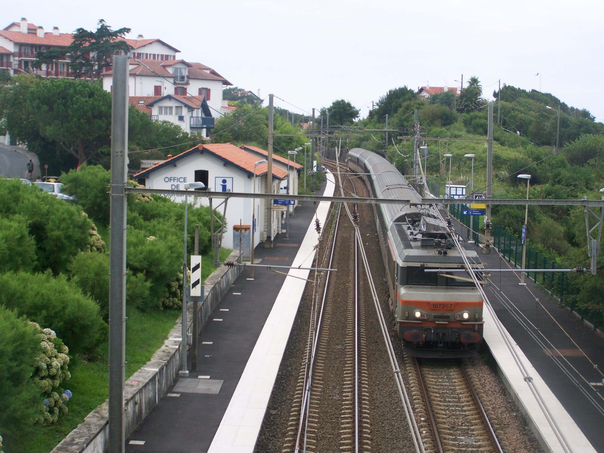 Night train from Irun (Spain) to Geneva (Switzerland) passing at Guethary station, in Pyrénées-Atlantiques.